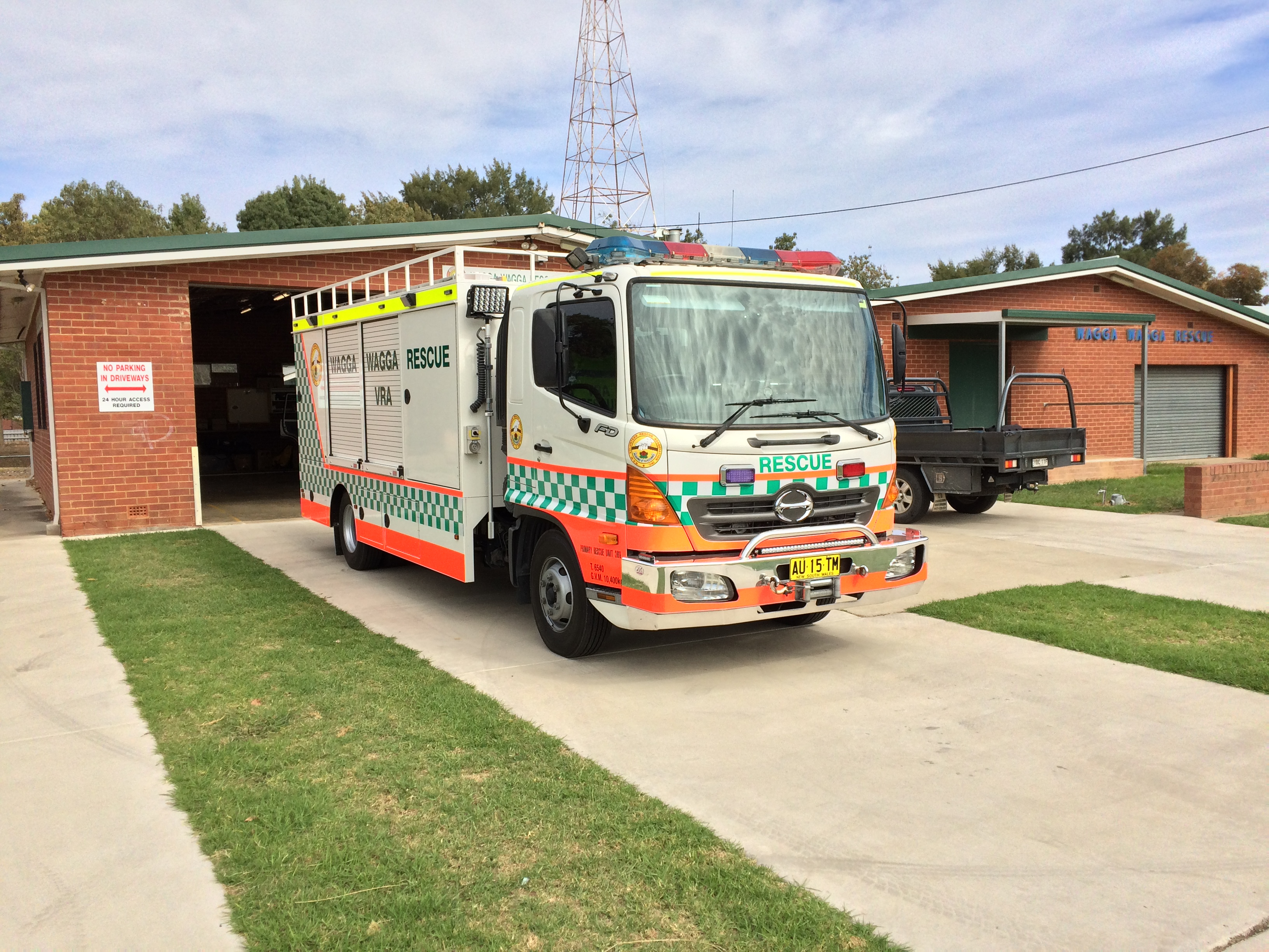 Wagga Wagga Rescue Squad HINO Ranger VRA Primary Rescue Unit 369.